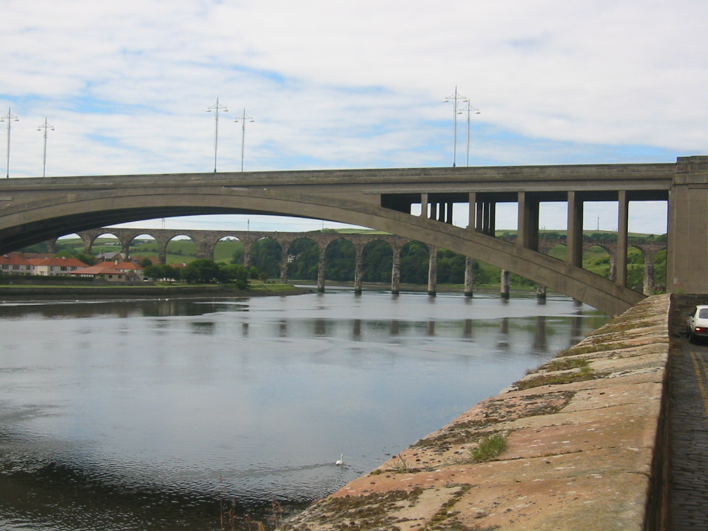 Two bridges crossing the river Tweed in Berwick-upon-Tweed, England. Source: Jaakko Sakari Reinikainen (ulayiti)